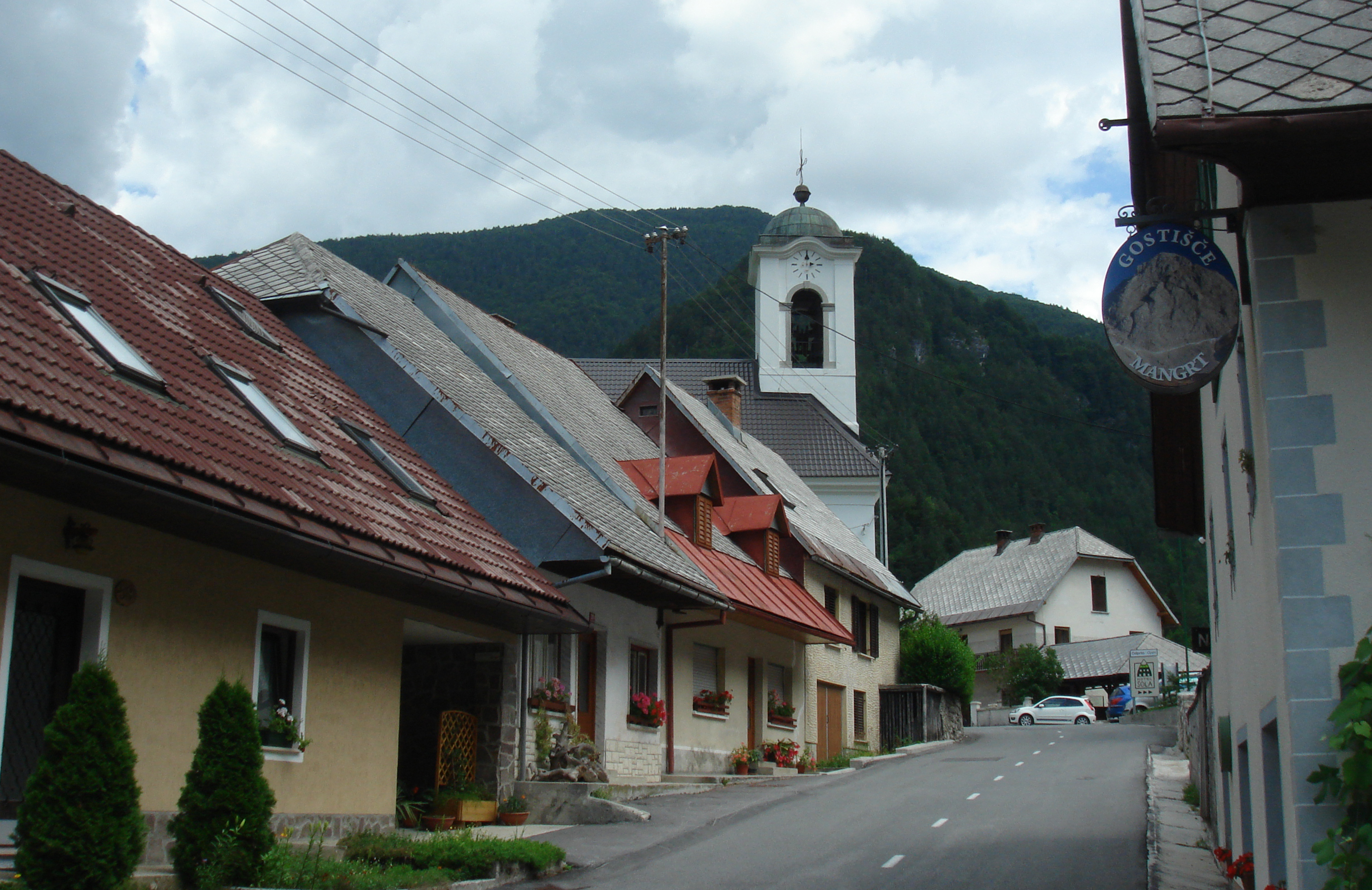 The village of Log pod Mangartom in Slovenia